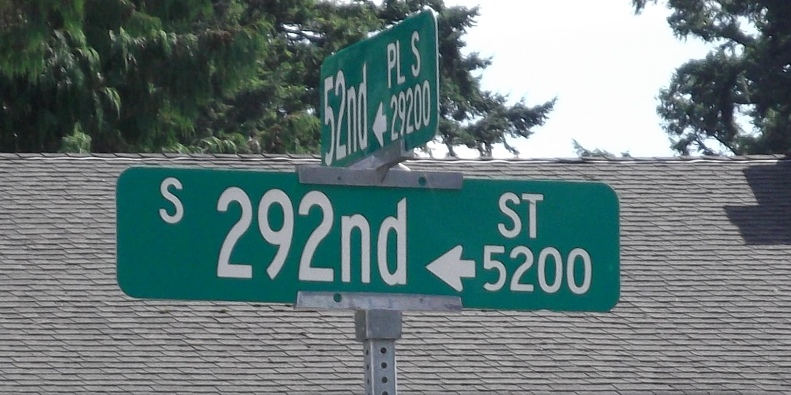 Street Sign in Auburn